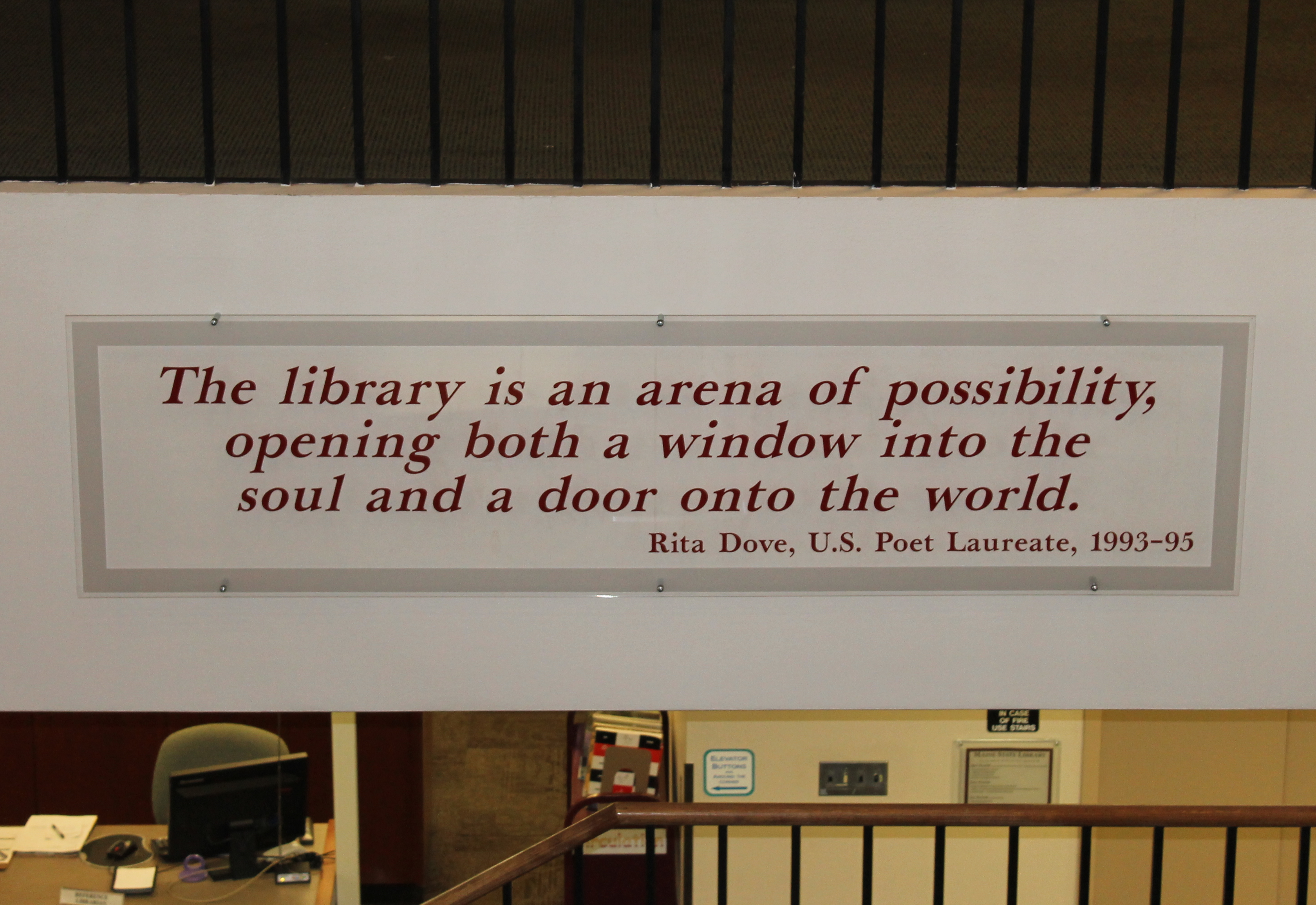 I took photo with Canon camera at Maine State Library in Augusta.